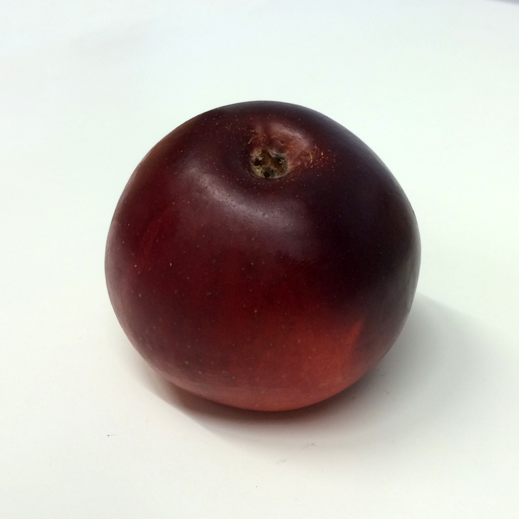 Apple of the cultivar Lobo, photographed in conjunction with the Apple Festival at Nordiska museet, Stockholm, Sweden in September 2014.